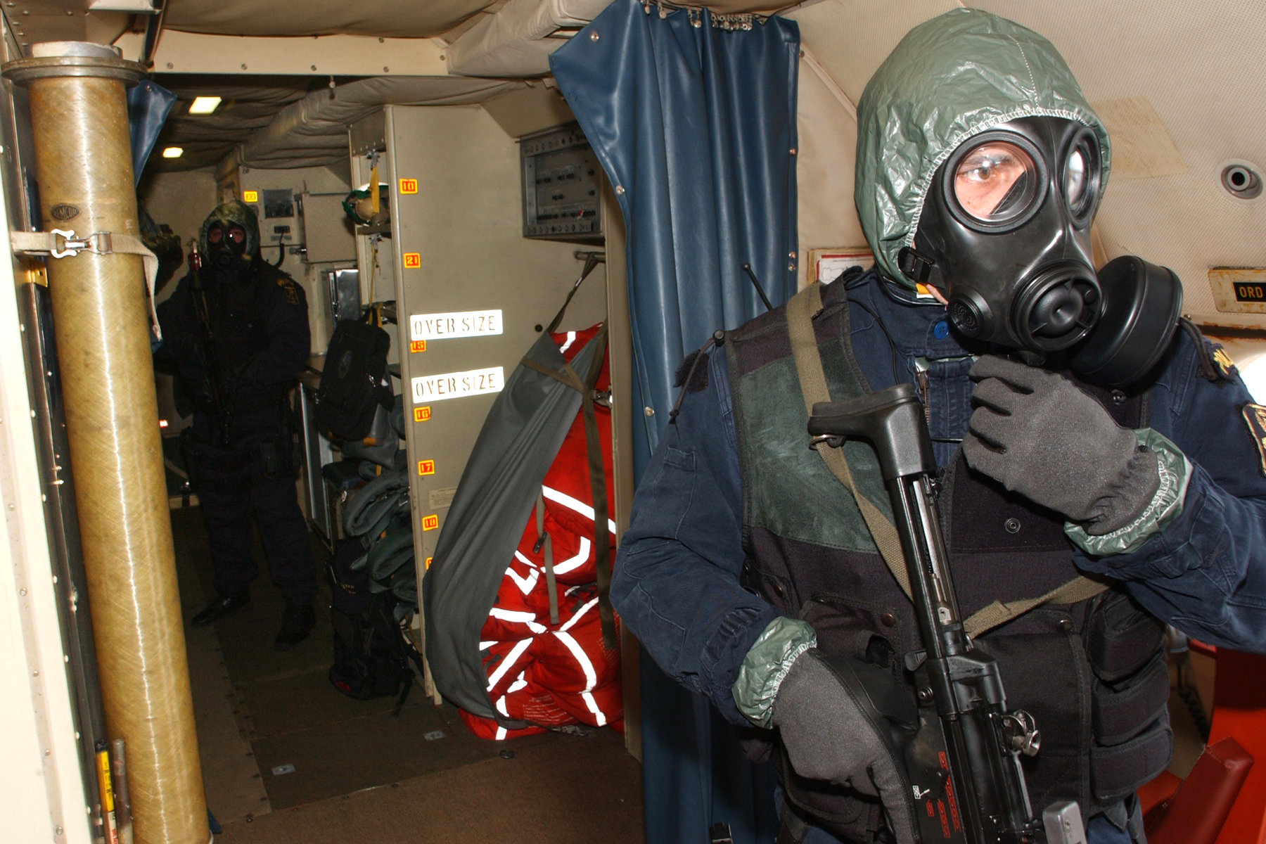 Sigonella, Sicily (Feb. 18, 2004) – An Italian State Police SWAT (Nucleo Operativo Centrale di Sicurezza, NOCS) officer watch as another searches for possible threats to Chemical, Biological, and Radiological (CBR) inspection teams boarding a U.S. Navy P-3C Orion aircraft assigned to the “Tridents” of Patrol Squadron Two Six (VP-26), during Exercise Air Brake 04, a multi-lateral aviation interdiction training exercise in the Mediterranean Sea area. The exercise, led by Italy, is part of the Proliferation Security Initiative (PSI), a collaborative effort to take active measures against trafficking in Weapons of Mass Destruction (WMD). The P-3C aircraft and crew assigned to VP-26 are participating in the exercise, along with French and Italian assets, to improve interdiction capabilities and interoperability among the eleven PSI nations. VP-26 is currently deployed to Sigonella, Sicily in support of Commander Task Force 67 (CTF 67), Sixth Fleet, and European Command operations. U.S. Navy photo by Photographer’s Mate 3rd Class John Roark. (RELEASED)